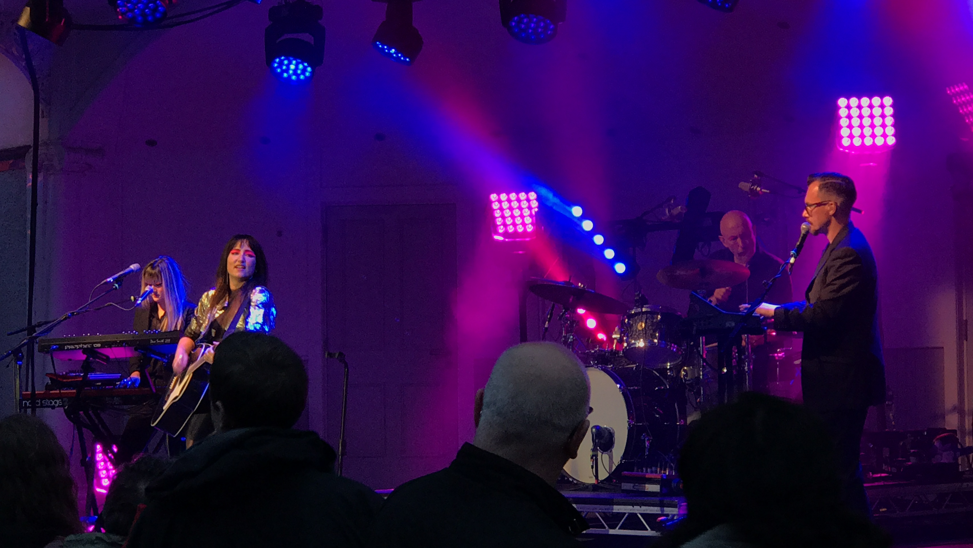 KT Tunstall performs live in Glasgow, 2017